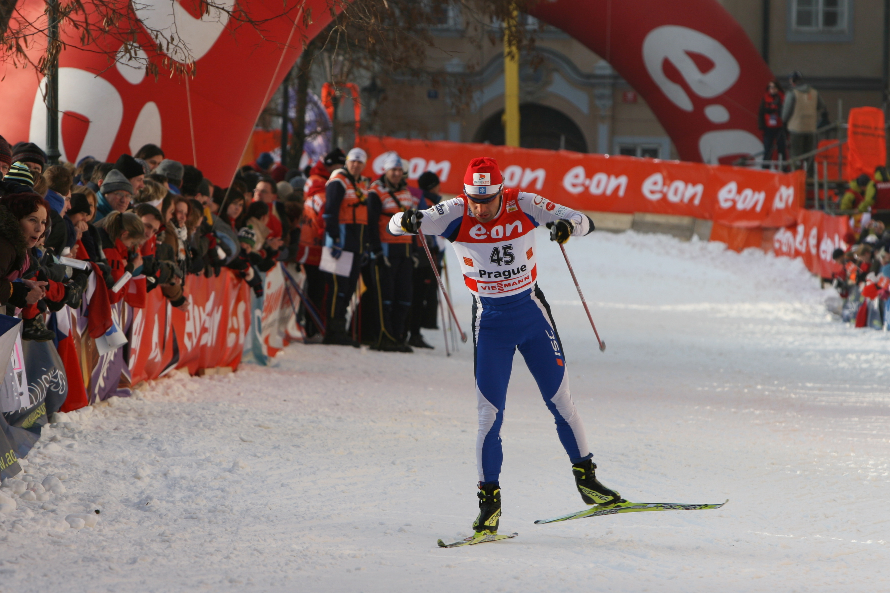 Jaak Mae in the qualification of Tour de Ski in Prague